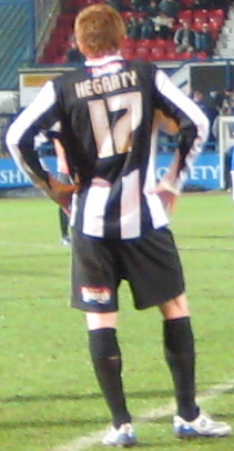 Nick Hegarty. Image cropped from original at flickr.